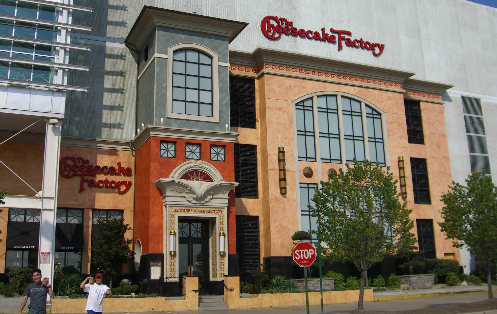 The Cheesecake Factory seen at the Palisades Center Mall in West Nyack.